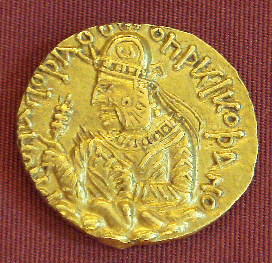 Coin of the Kushan king Huvishka. British Museum. Personal photograph 2006.